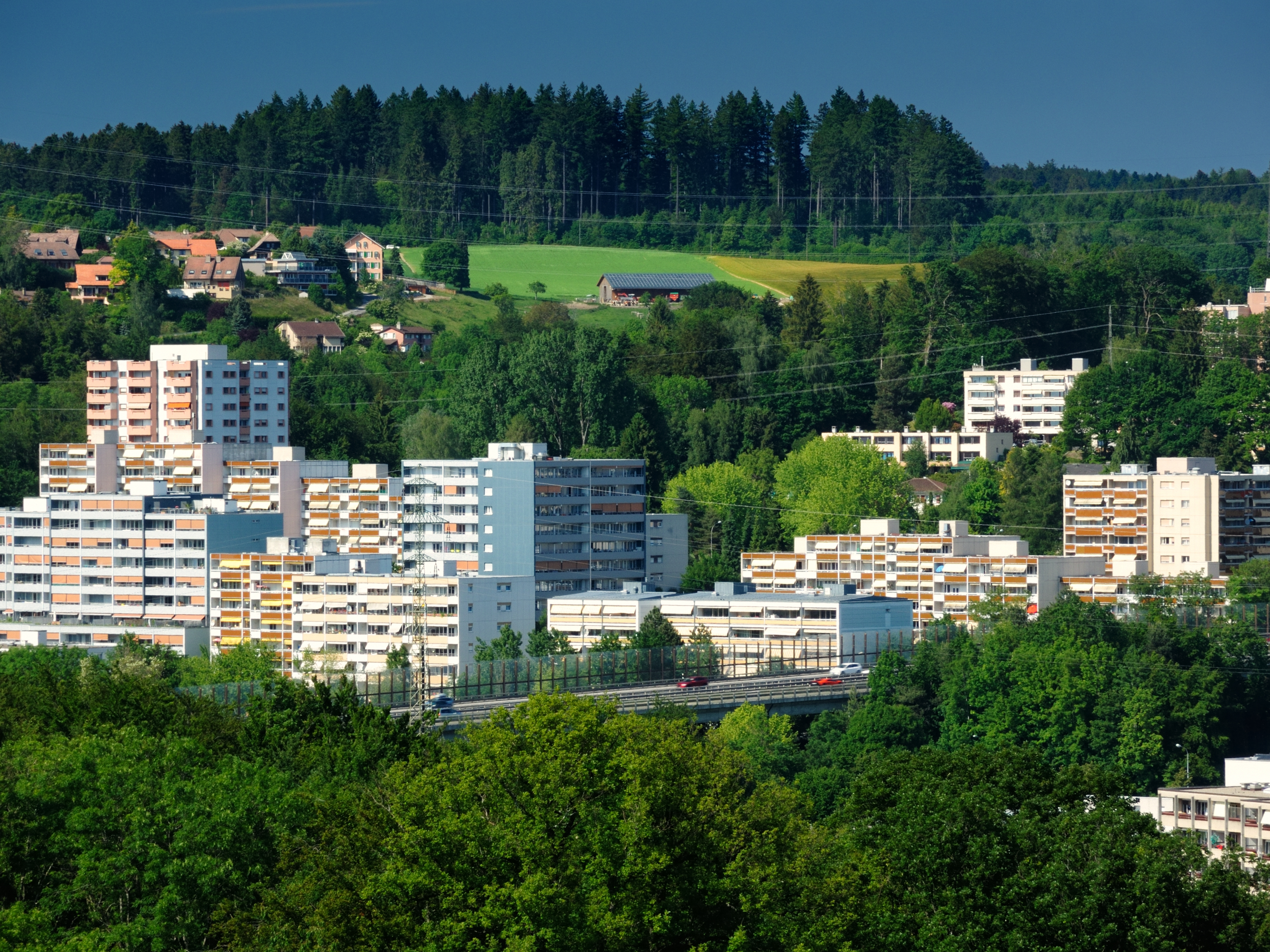 The Isabelle-de-Montolieu sector of Lausanne (Switzerland), seen from Sauvabelin tower.